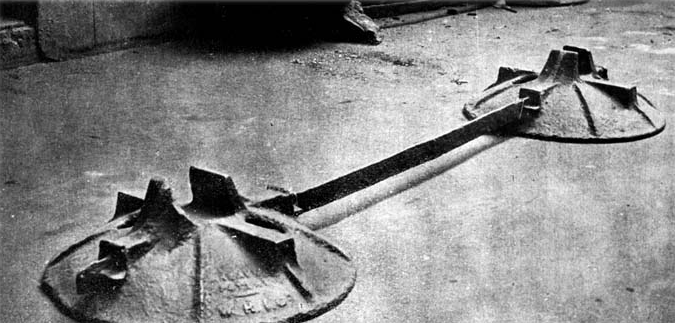 Potlid sleeper as used by the Natal Railway in Durban